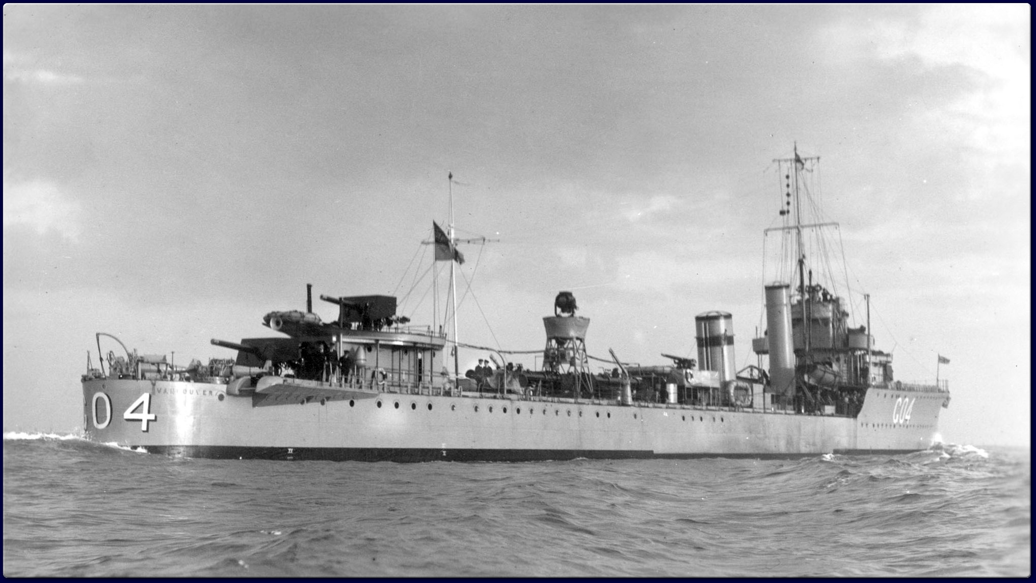 Photograph of British Admiralty V class destroyer HMS Vancouver.